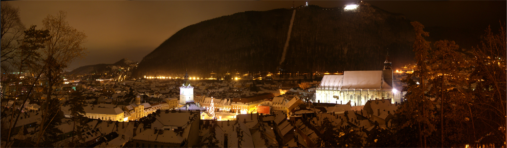 Brasov at Night - Panorama